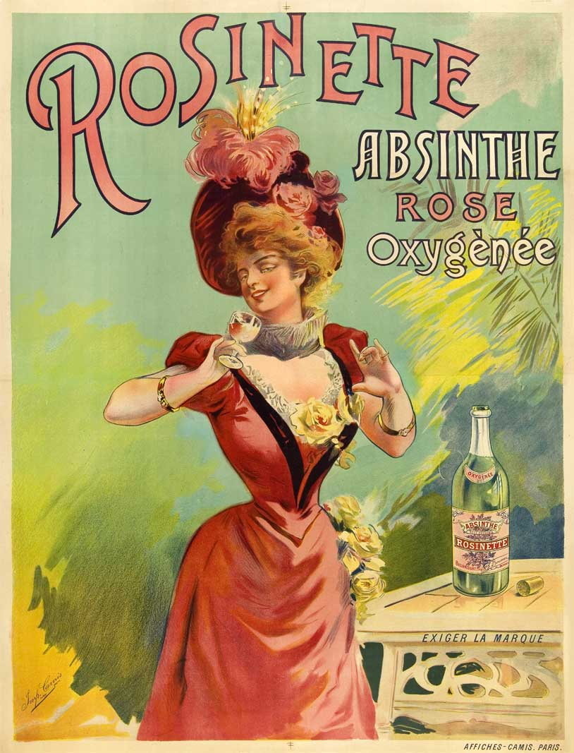 Advertising poster for "Absinthe Rosinette", published by Imprimerie Camis, Paris, circa 1900. Shows a woman with bottle and glass of absinthe.